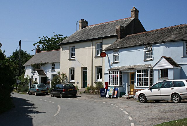 Chapel Amble. Three houses here at the village centre. The first is the Post Office.